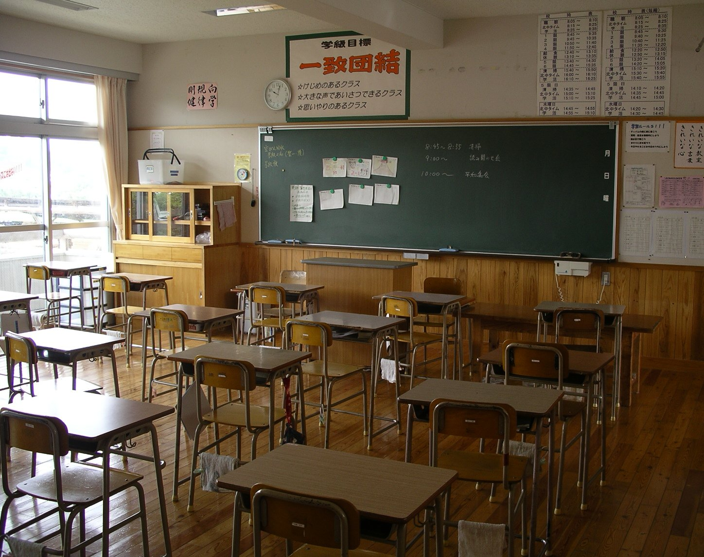 A typical Japanese classroom; Hokubu Junior High School, Hita city, Oita prefecture.